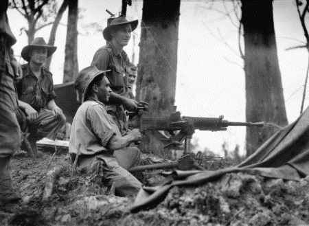 Soldiers from the 2/2nd Machine Gun company using a captured Japanese 7.7mm machine gun to attack Japanese positions on Joyce Feature, Tarakan.